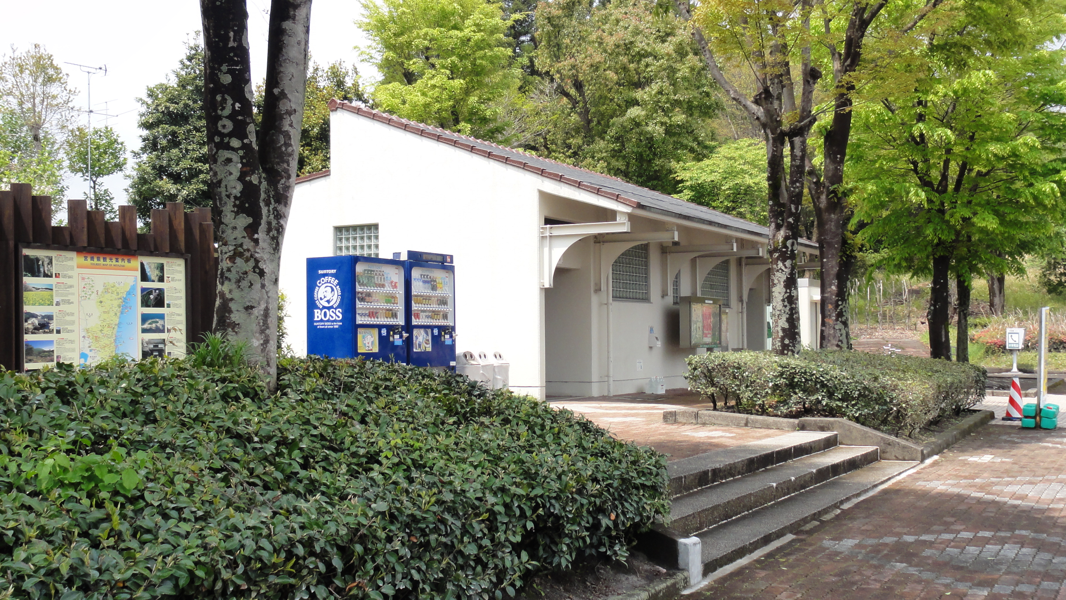 Hyuga-Takazaki PakingArea ,Miyazaki prefecture, Japan